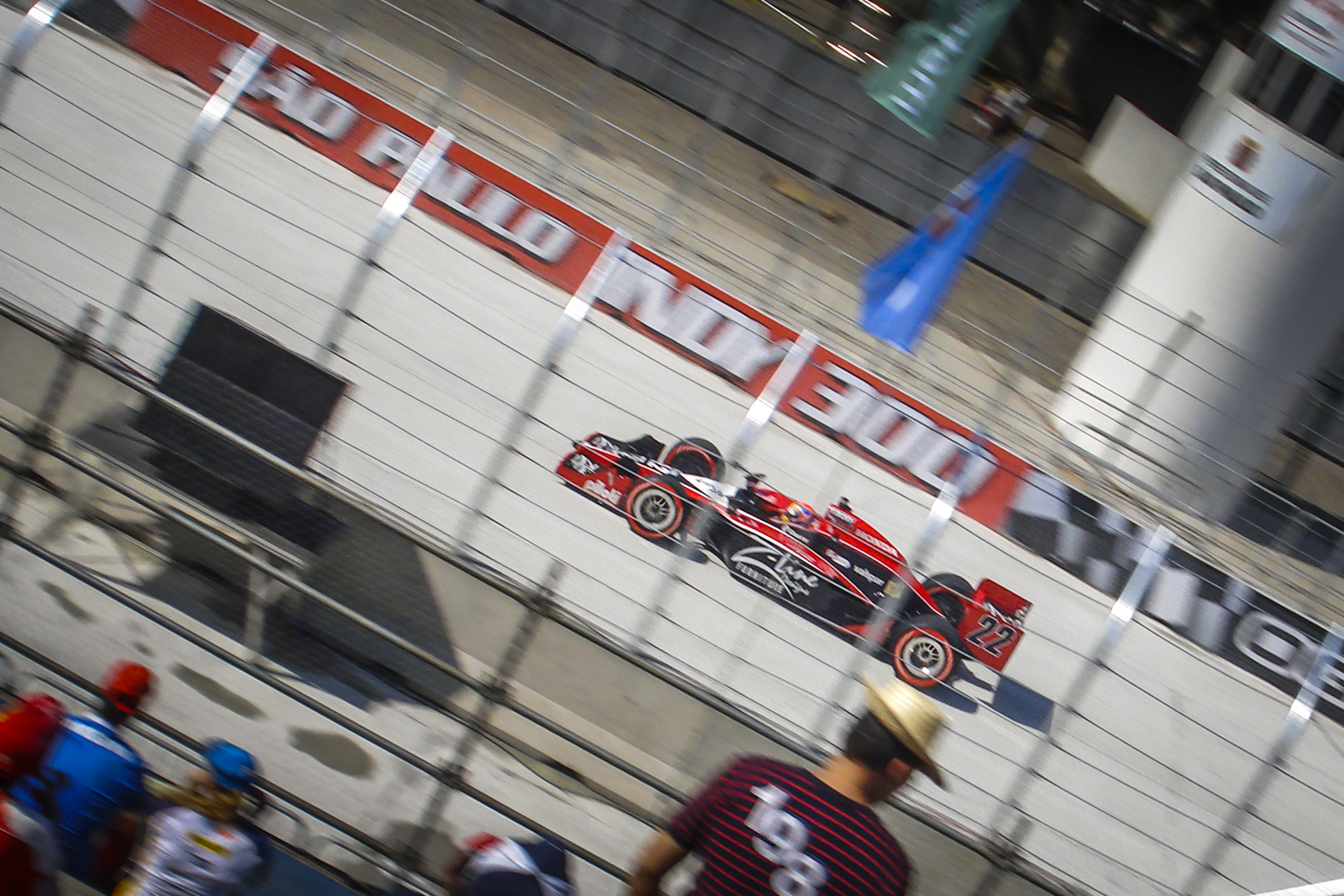 Driver Justin Wilson competing for Dreyer & Reinbold Racing at the 2010 São Paulo Indy 300